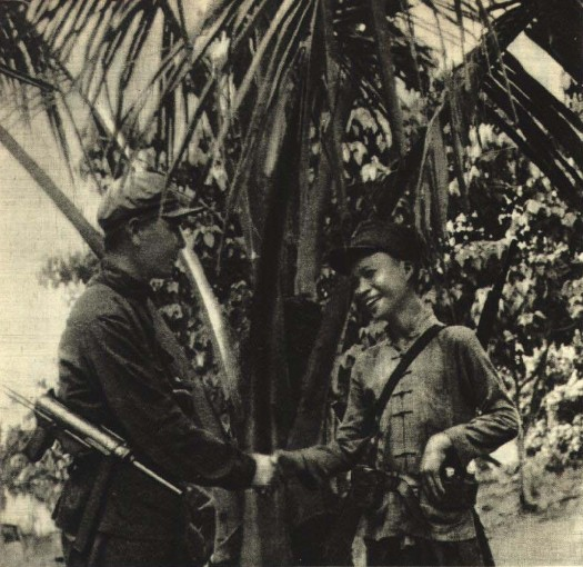 1950年，海南战役，解放军攻入海口，和当地琼崖纵队会合